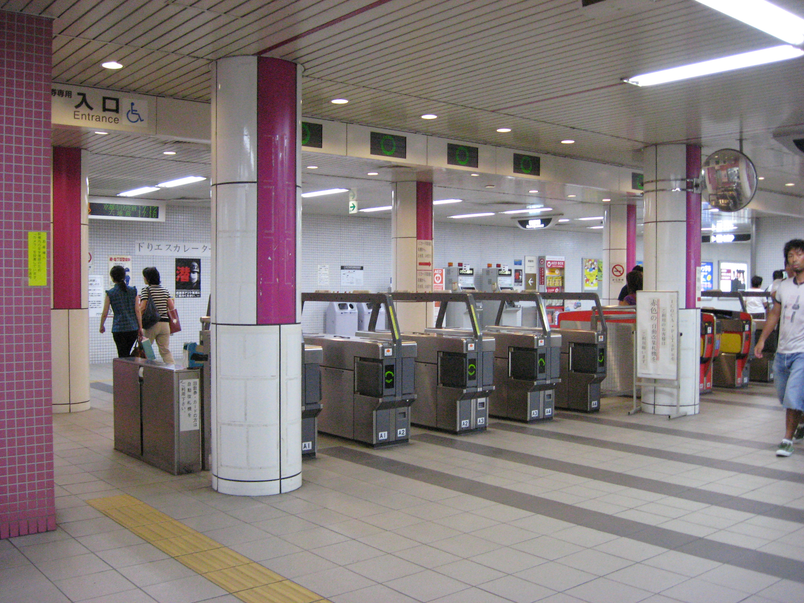 Kyoto City Subway Sanjo-Keihan Station ticket gates